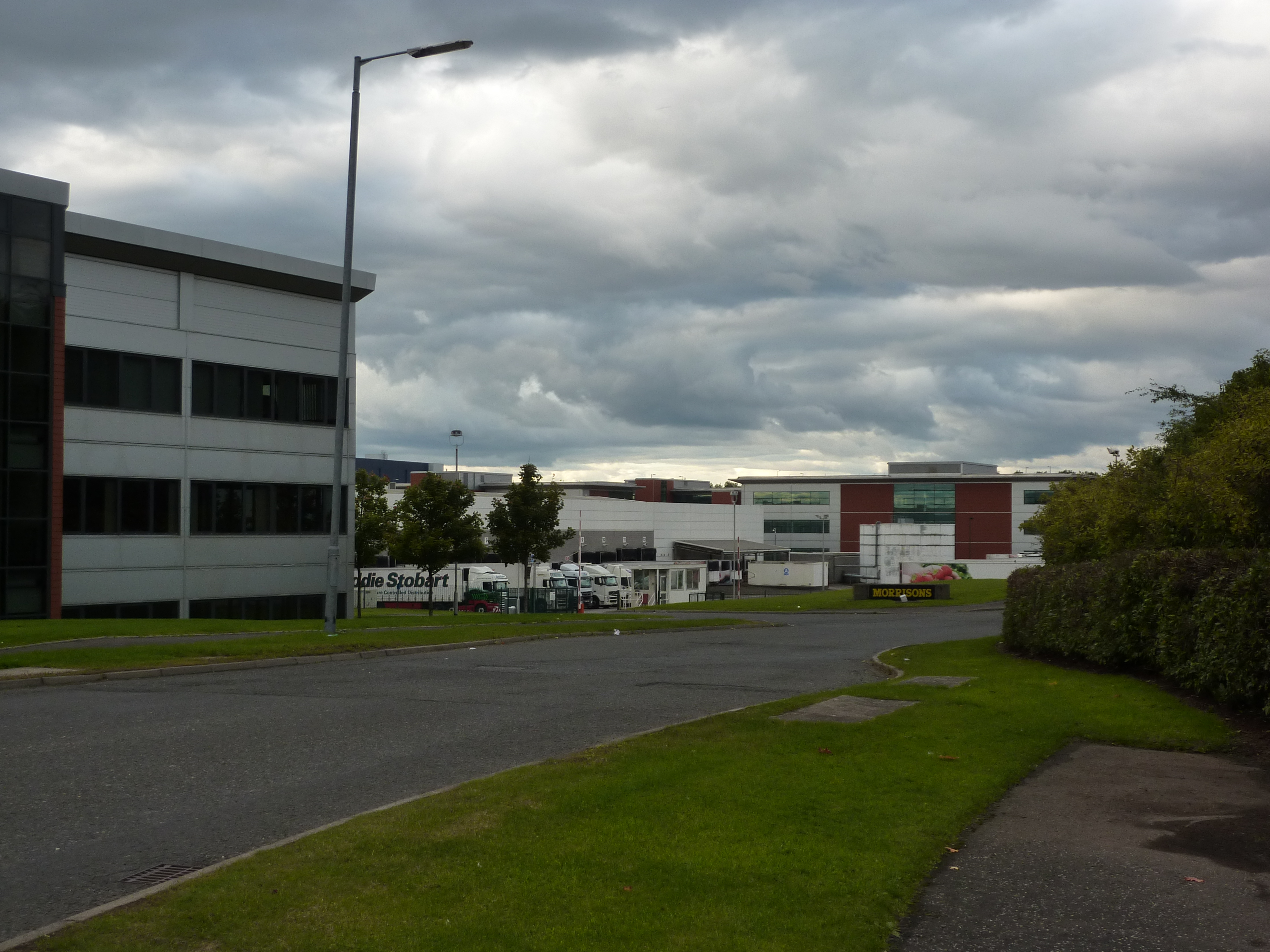 Morrisons' Distribution Centre, Eurocentral Business Park